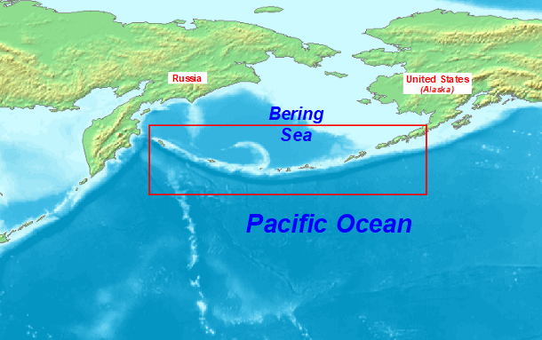 This is a physical map to show the location of the Aleutian Islands between North America and Asia, between the Pacific Ocean and the Bering Sea